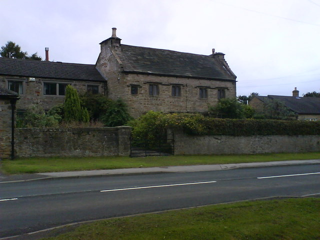 The Manor House, Skeeby Built between 1534-1699 with later additions, this is a fine building, but is mostly hidden from view by its beech hedge. It even warrants a mention in Pevsner's Buildings Of England.